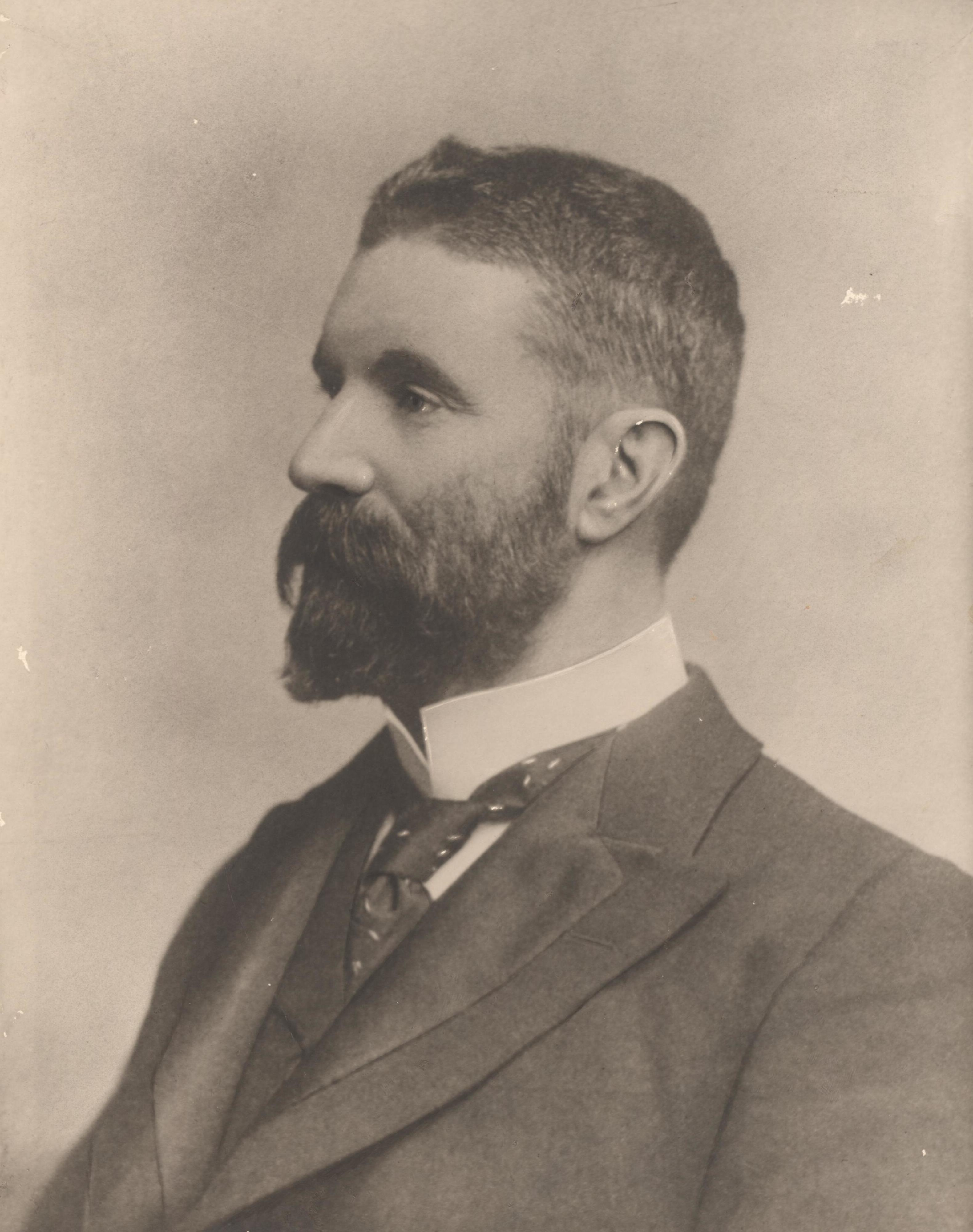 Photographic portrait of Alfred Deakin